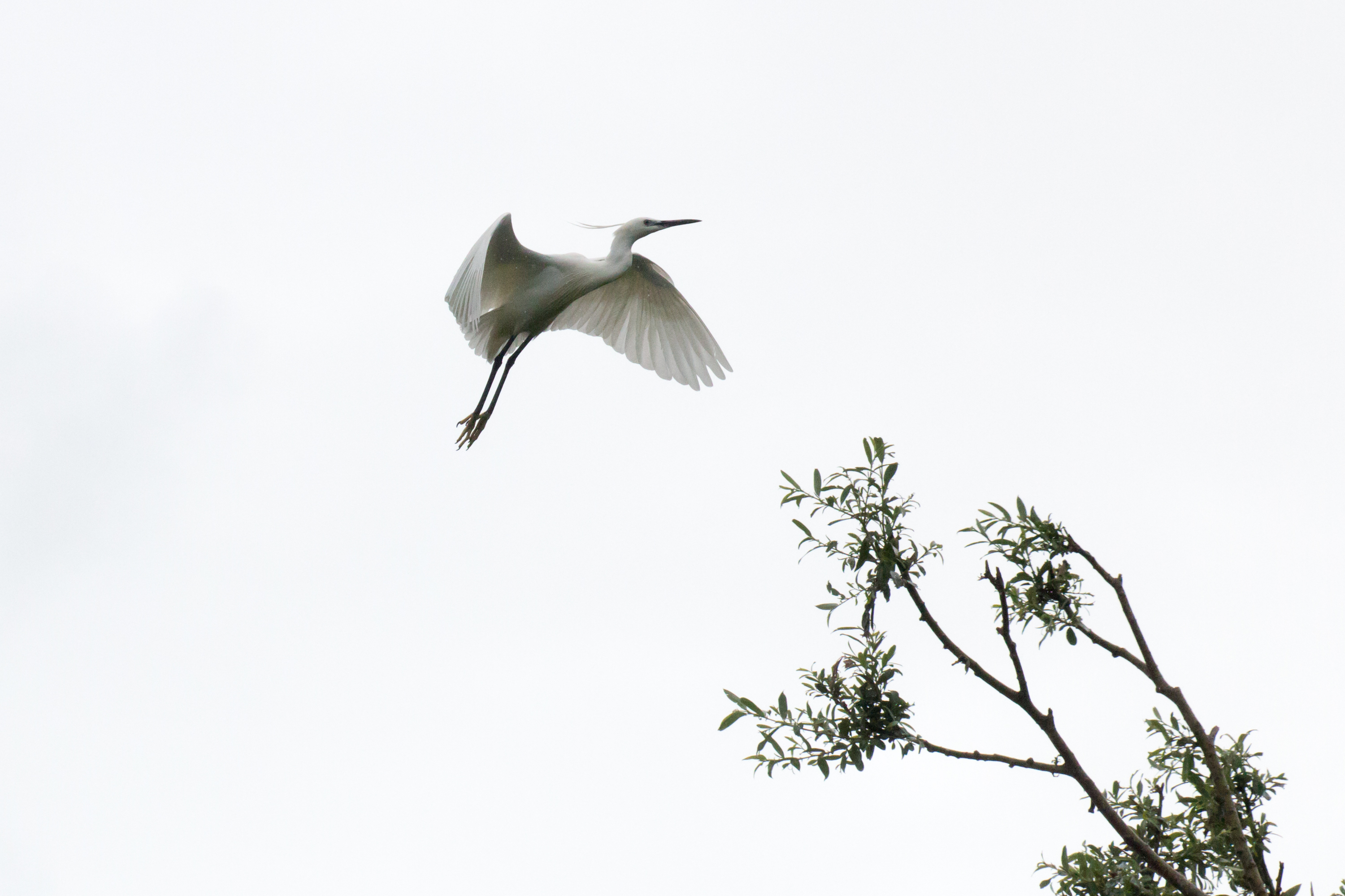 Natural life in Kekrini lake, Serres, Greece This is a photography of Natura 2000 protected area with ID GR1260008